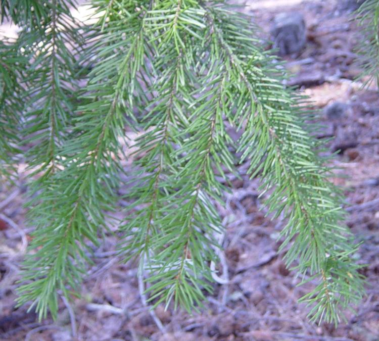 Photograph by Daniel Mayer. Taken in October 2003 and released under terms of the GNU FDL.